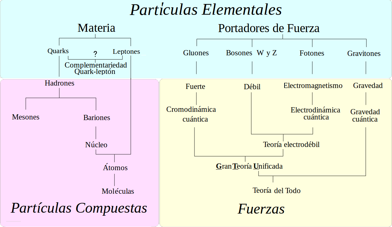 An overview of particle physics